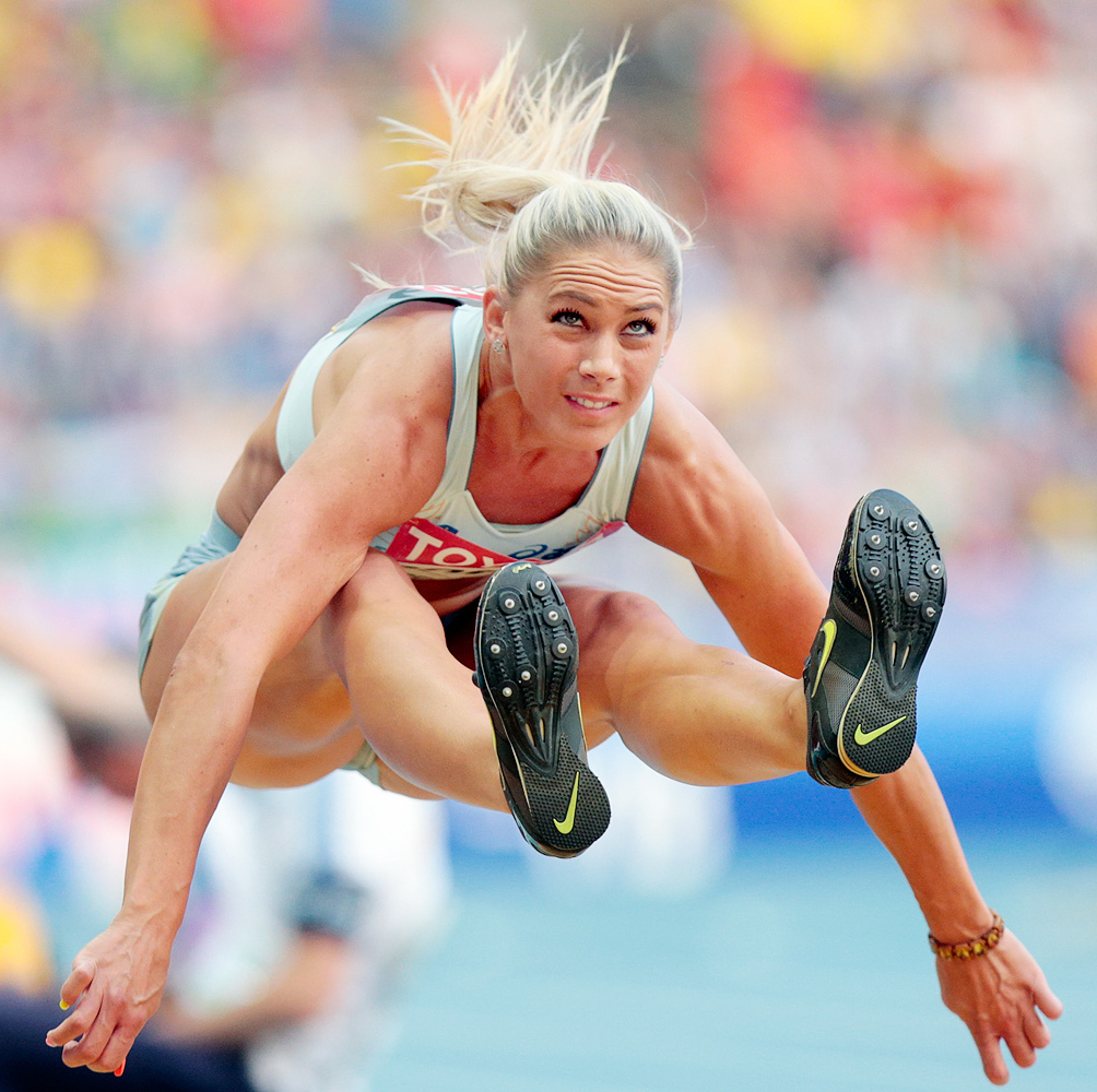 Snezana Rodic at 2013 World Championships in Athletics